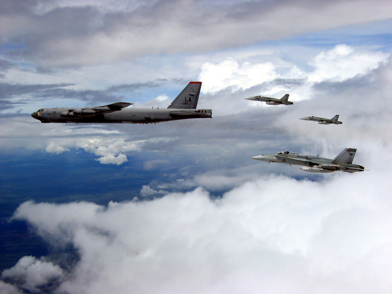 A B-52 Stratofortress from Andersen Air Force Base, Guam, is escorted by Hornets from the Royal Australian Air Force March 21 en route to the Delamere Bombing Range as part of the Green Lightning exercise that ended last week in Australia. The Delamere Bombing Range facility in the Northern Territory is a world class military exercise site that allows many skills to be honed and tested.